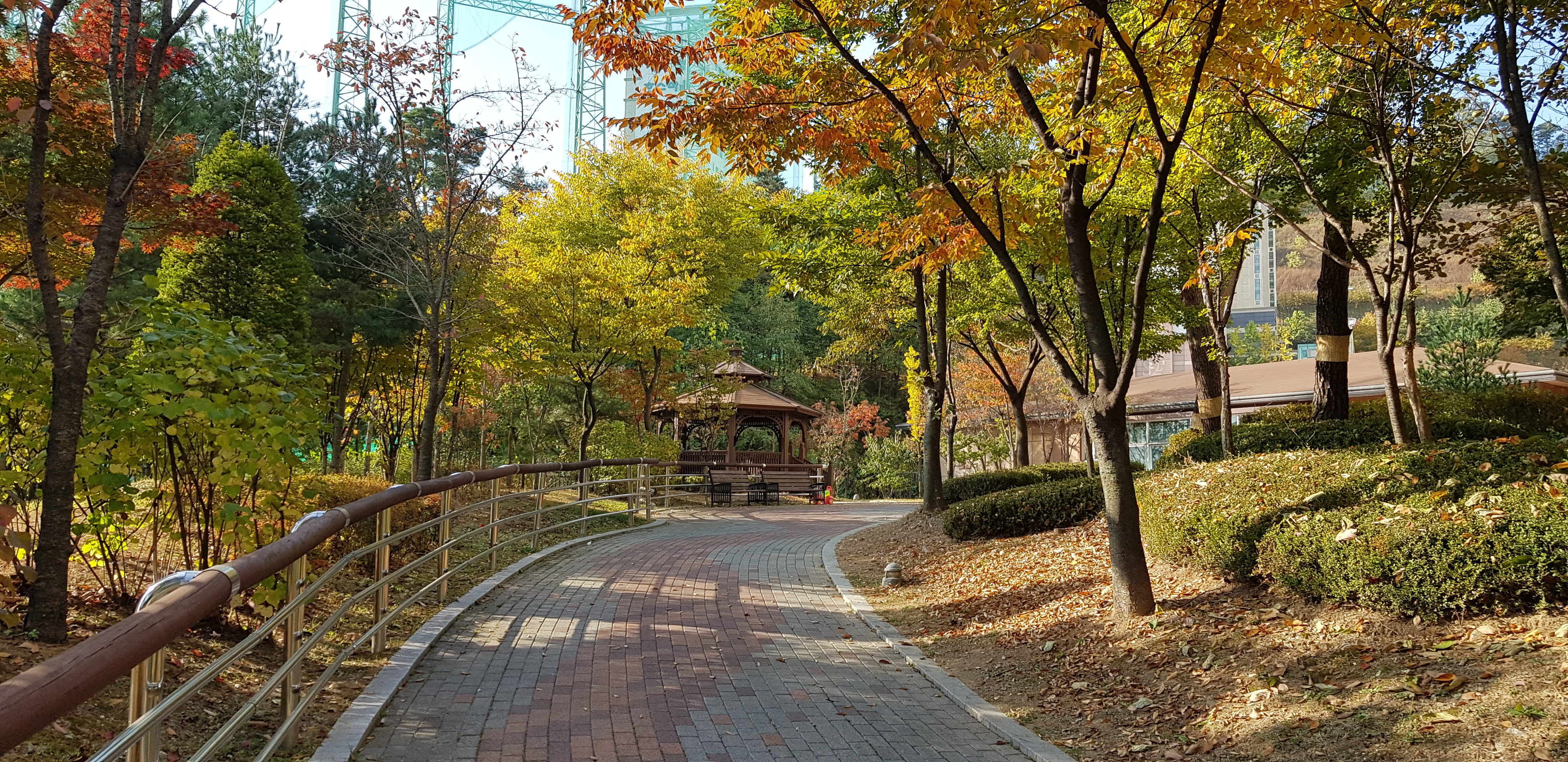 walking road